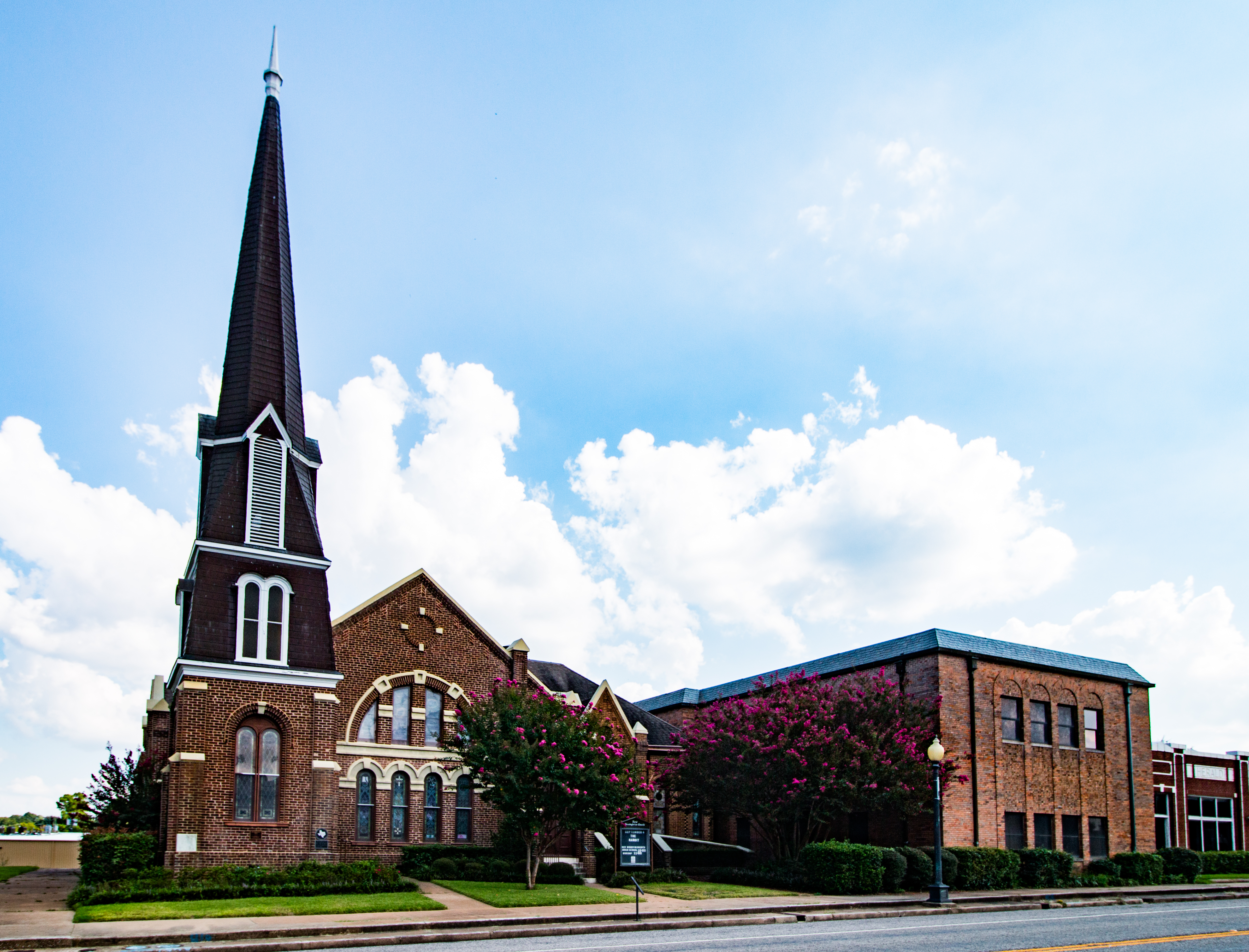 First Presbyterian Church in Palestine, Texas